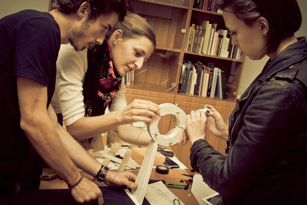 Работа студенческой фокус-группы по мотивам выставки Сантьяго Калатравы